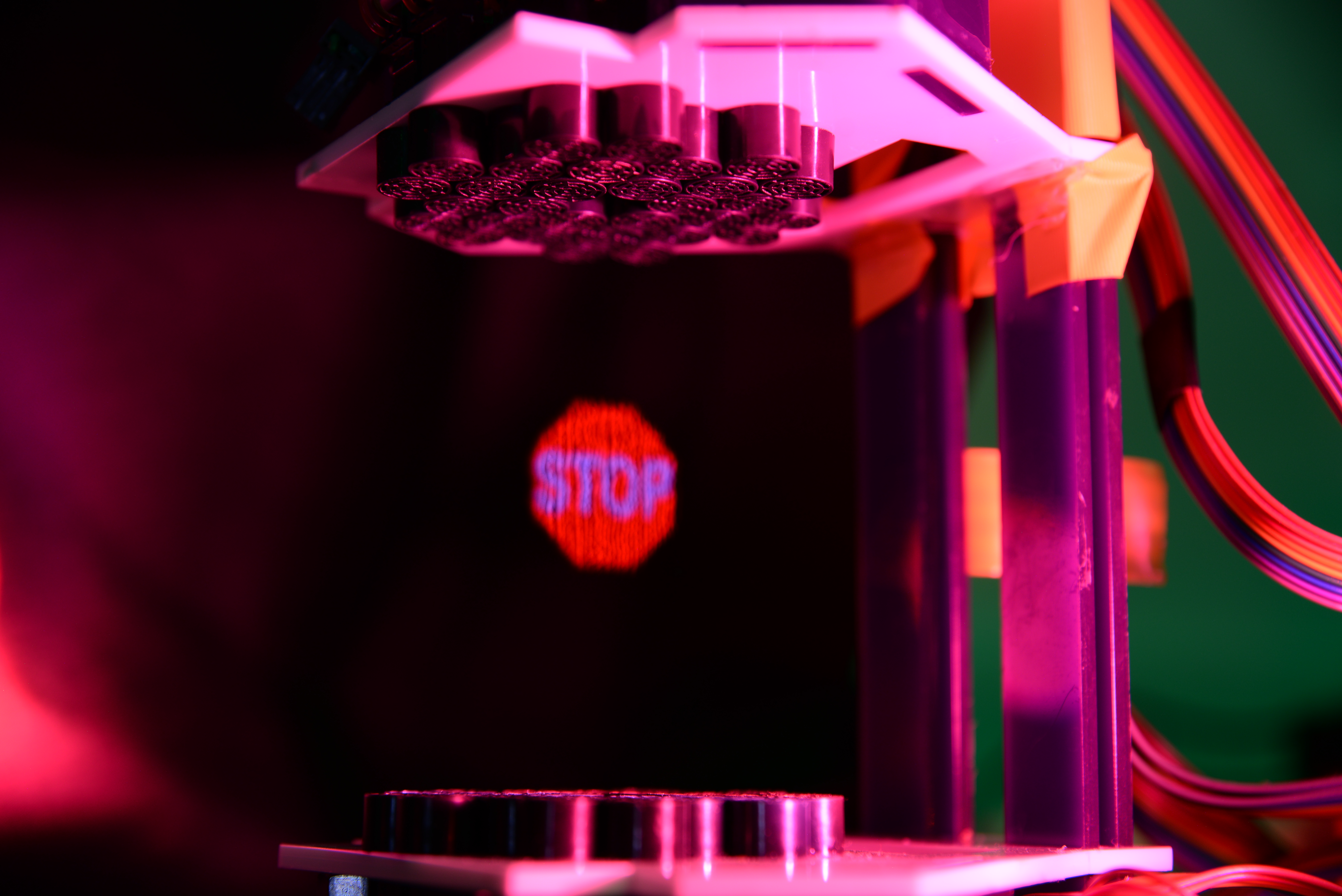 An expanded-polystyrene (EPS) particle with a diameter of 1-2 mm was levitated in mid-air, whilst the illumination of RGB LED light. The particle was displaced in a vertical rastering format, and the color projected on the particle was changed synchronously to the position of the particle. The rendering time of this image is 20 seconds, and long exposure was utilized to record this image. The size of screen is 23 by 23 mm, and 60 ultrasonic transducers were utilized to levitate the particle. See the publication by Fushimi et al. for the details on the display technology: Fushimi, T., Marzo, A., Drinkwater, B. W. & Hill, T. L. Acoustophoretic volumetric displays using a fast-moving levitated particle. Appl. Phys. Lett. 115, 064101 (2019).